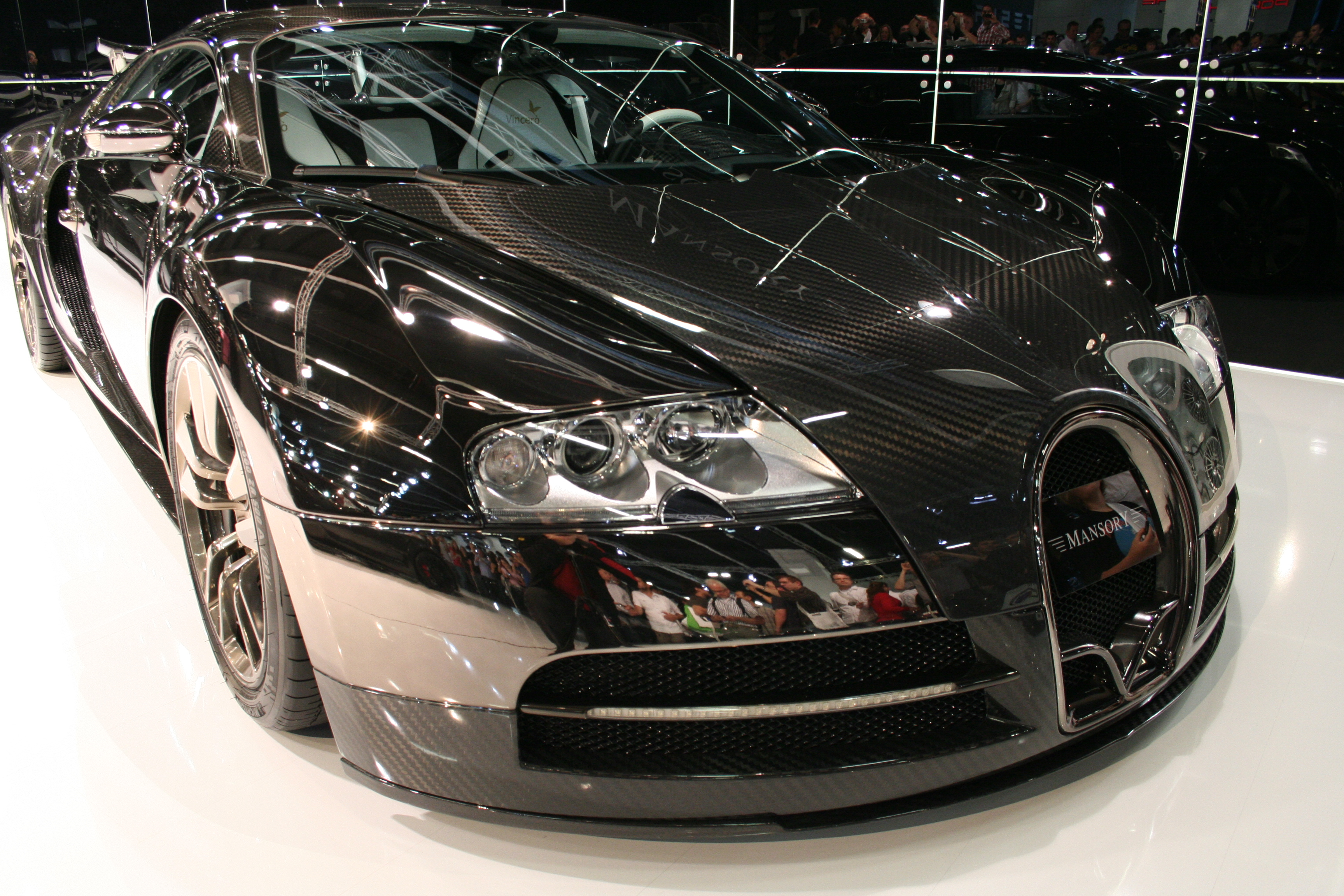 Bugatti Veyron tuned by Mansory. Showed at the Frankfurt IAA 2009.